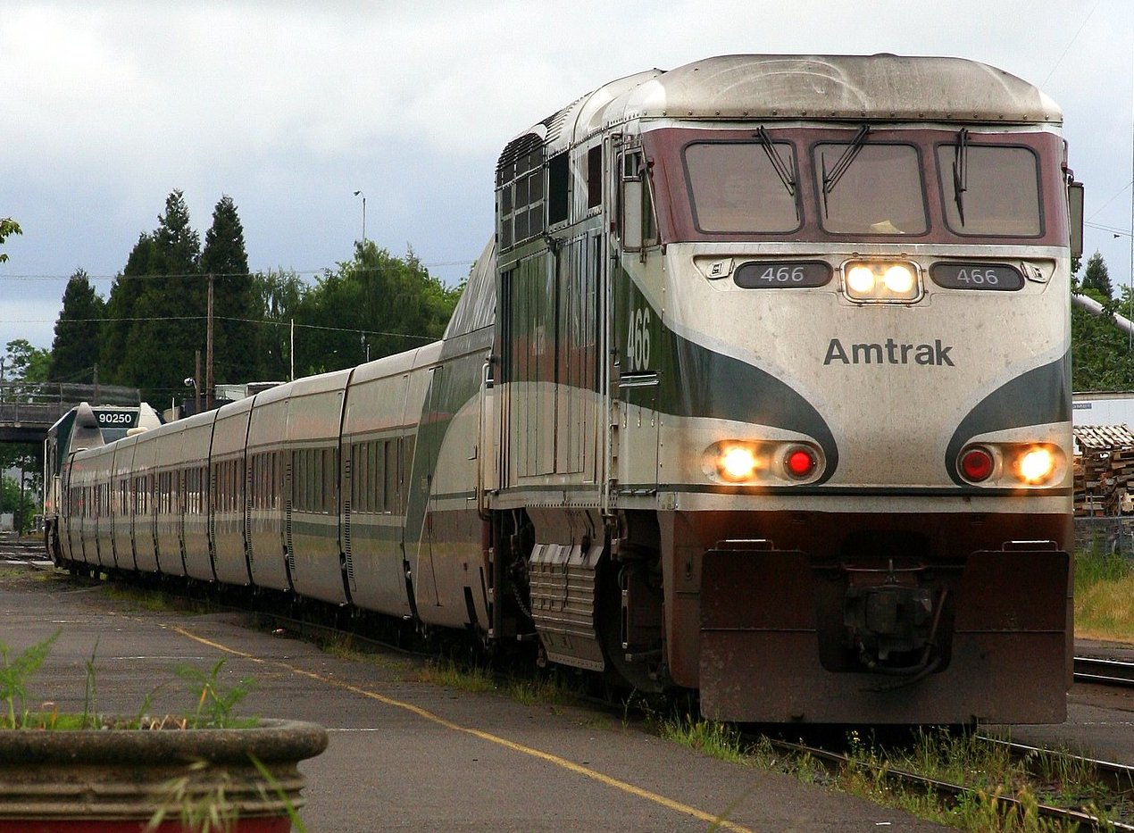 An Amtrak Cascades trainset pulling into Eugene station to load passengers for the morning trip north in May 2008